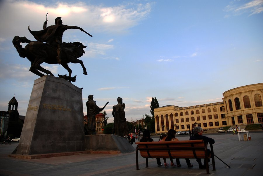 Gyumri, the statue of Saint Vardan and the city hall at Vardanants Square.